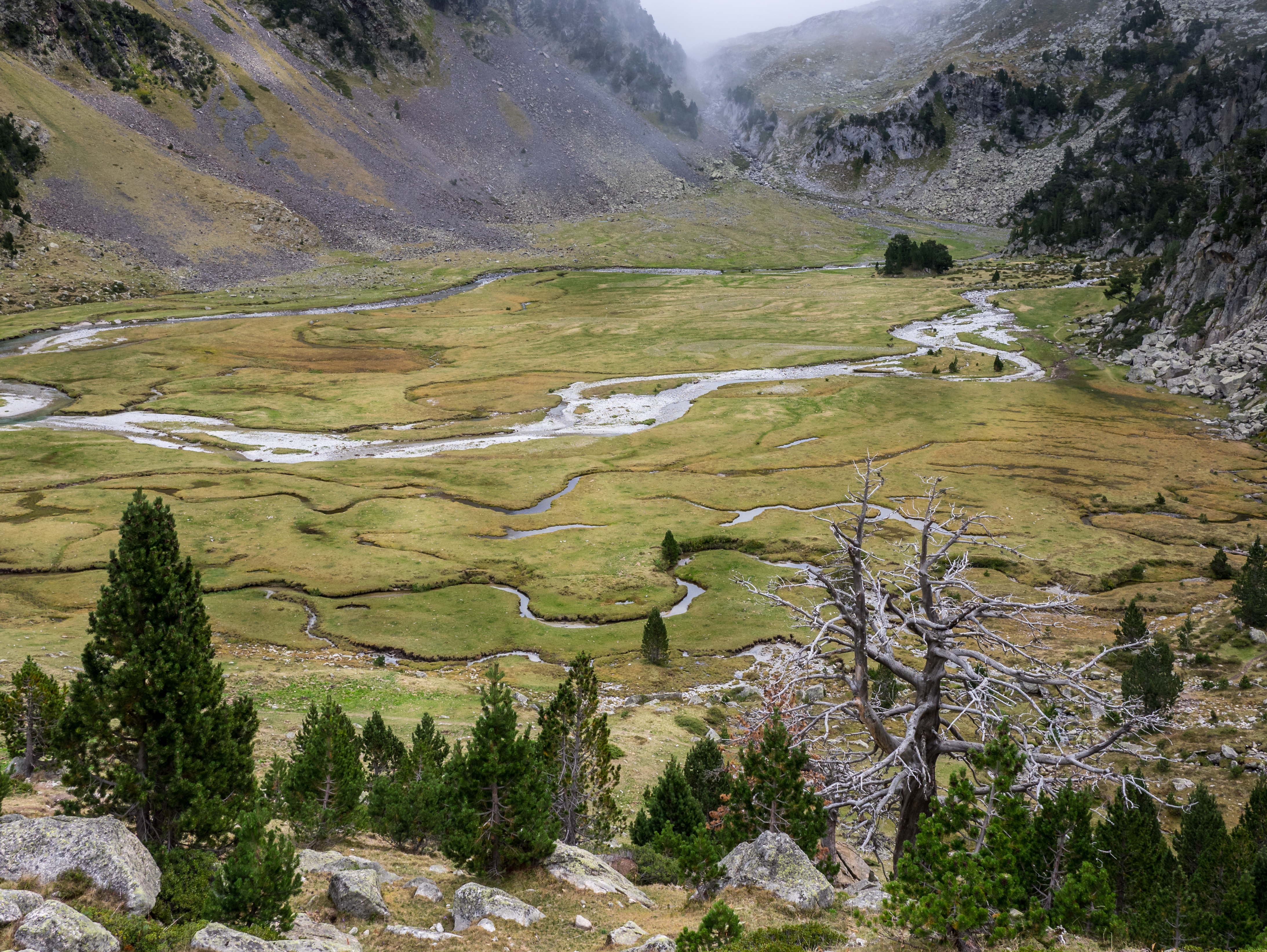 Aigualluts Plains. Huesca, Aragon, Spain